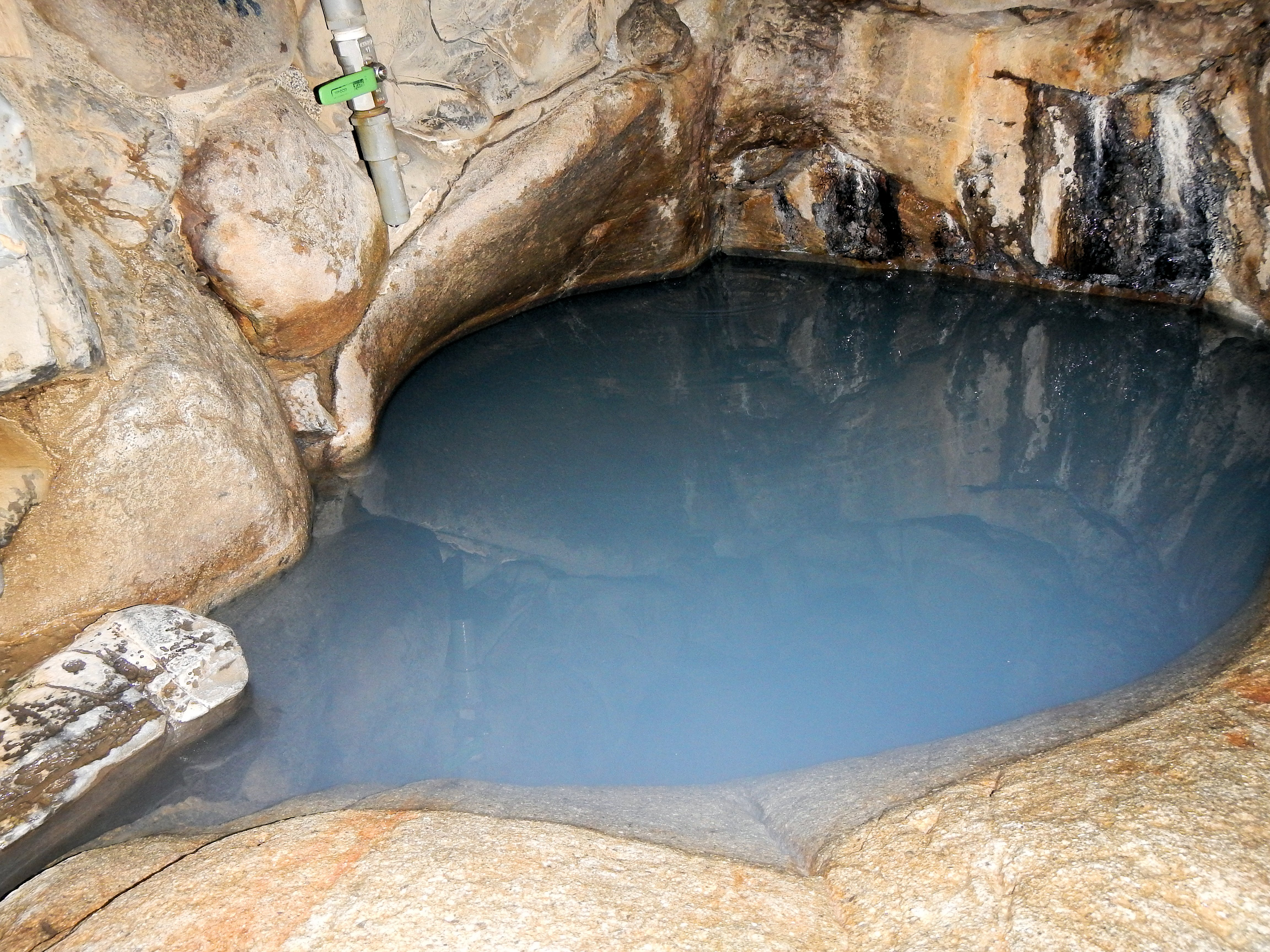 Kumano Kodo World heritage Yunomine Onsen Tsuboyu 湯の峰温泉 つぼ湯